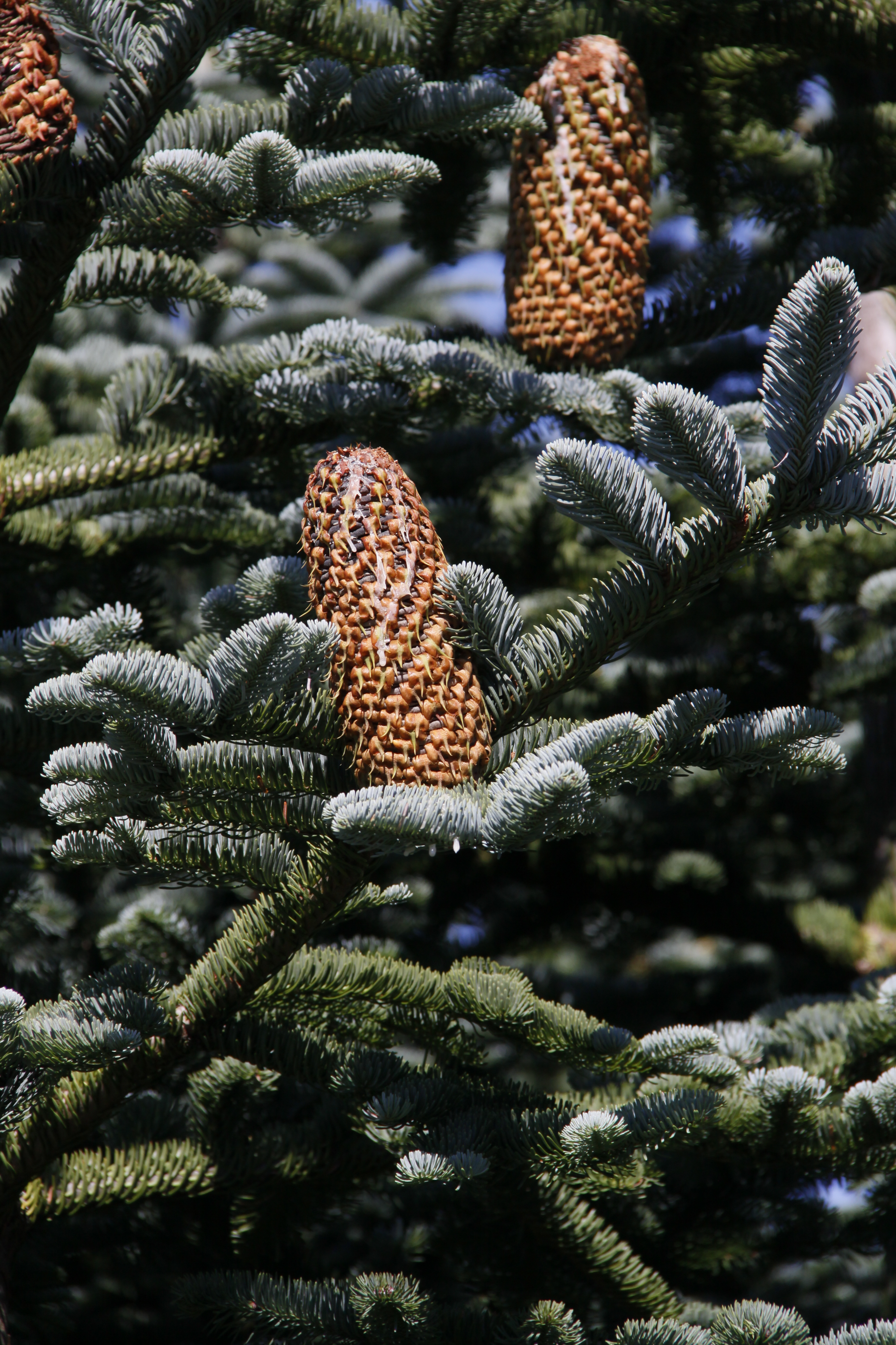 Female cones of noble fir (Abies procera)